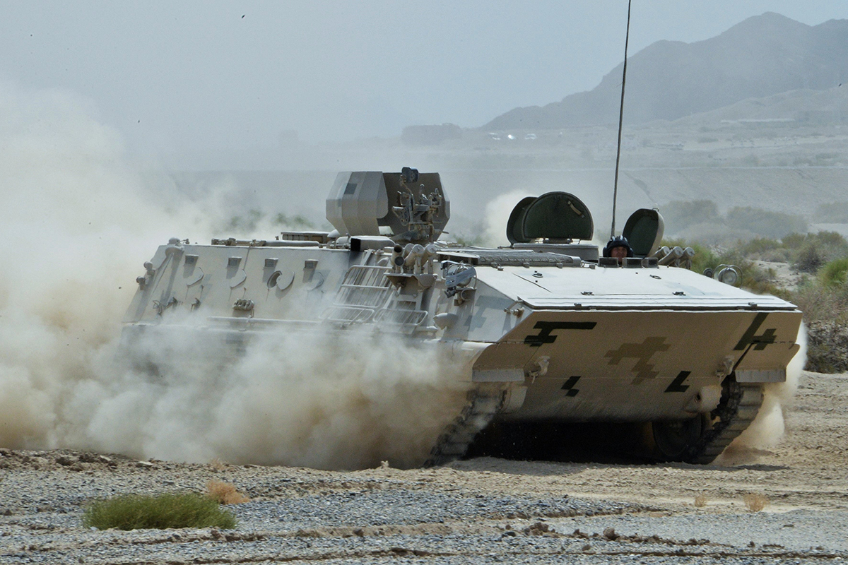 Type 89 (YW534, ZSD-89)